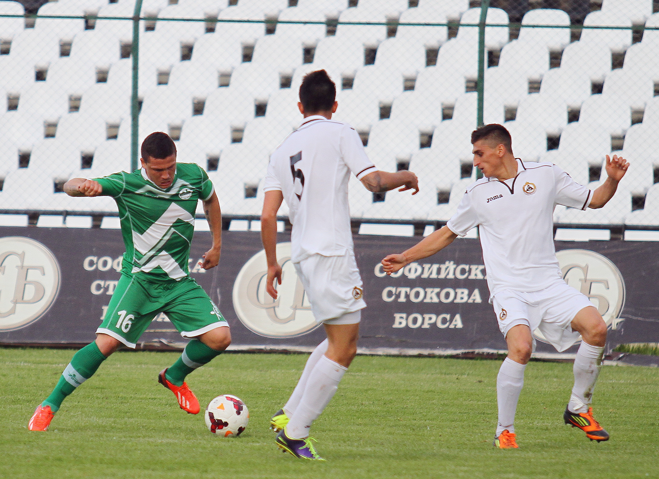 Ognian Stefanov - bulgarian soccer player, forward